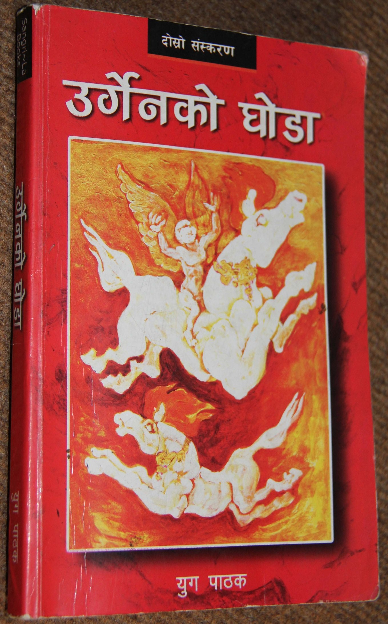 This is the cover of the famous Nepali Novel Urgenko Ghoda by Yug Pathak.